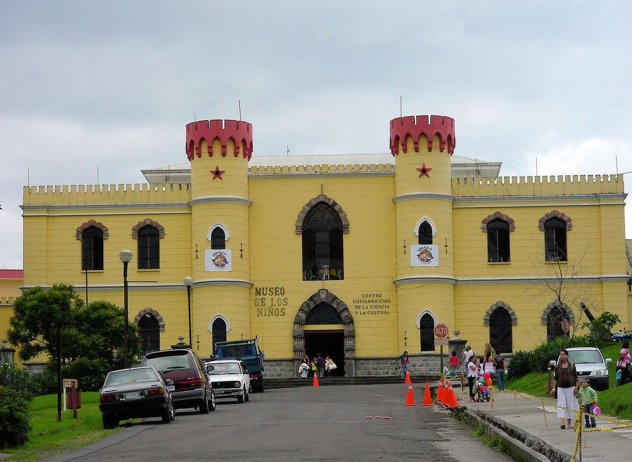 Children's Museum, San Jose, Costa Rica